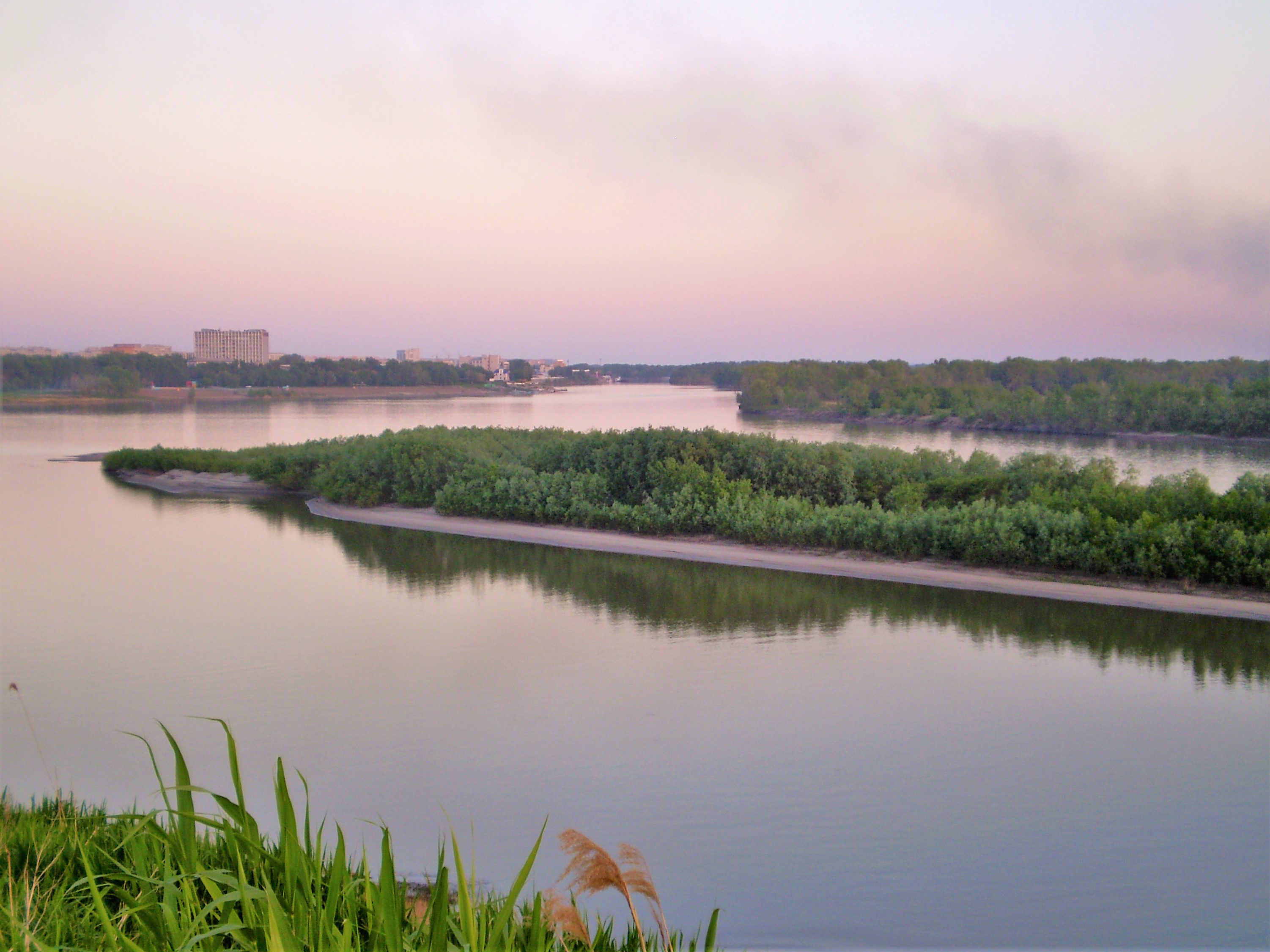 View at the Irtysh river from the Pavlodar city riverside. May 2009